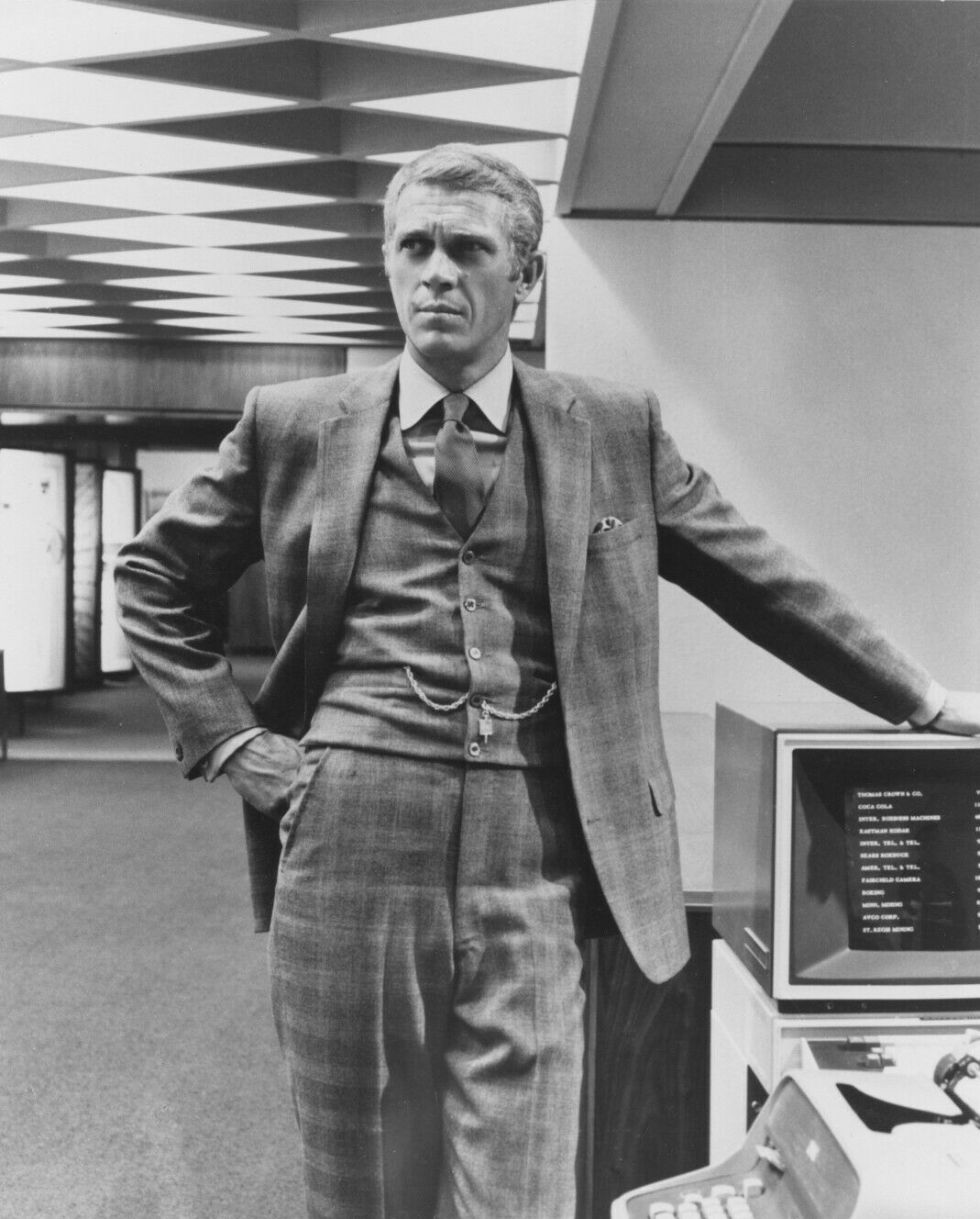 Steve McQueen in The Thomas Crown Affair, 1968.